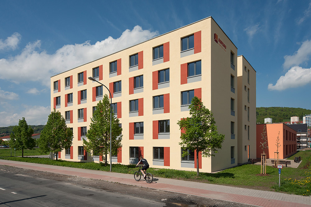 Residential home of the "Wohnungsbaugenossenschaft "Aufbau" Gera eG", Camburger Street in Jena